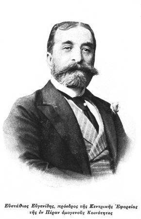 Efstathios Evgenidis (?-1913): Greek philanthropist